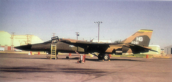 F-111A 67-081 taken at Nellis AFB Nevada in 1975. During the Vietnam war, the aircraft was assigned to the 429th TFS/347th Tactical Fighter Wing at Takhli and Korat Royal Thai Air Force Bases.